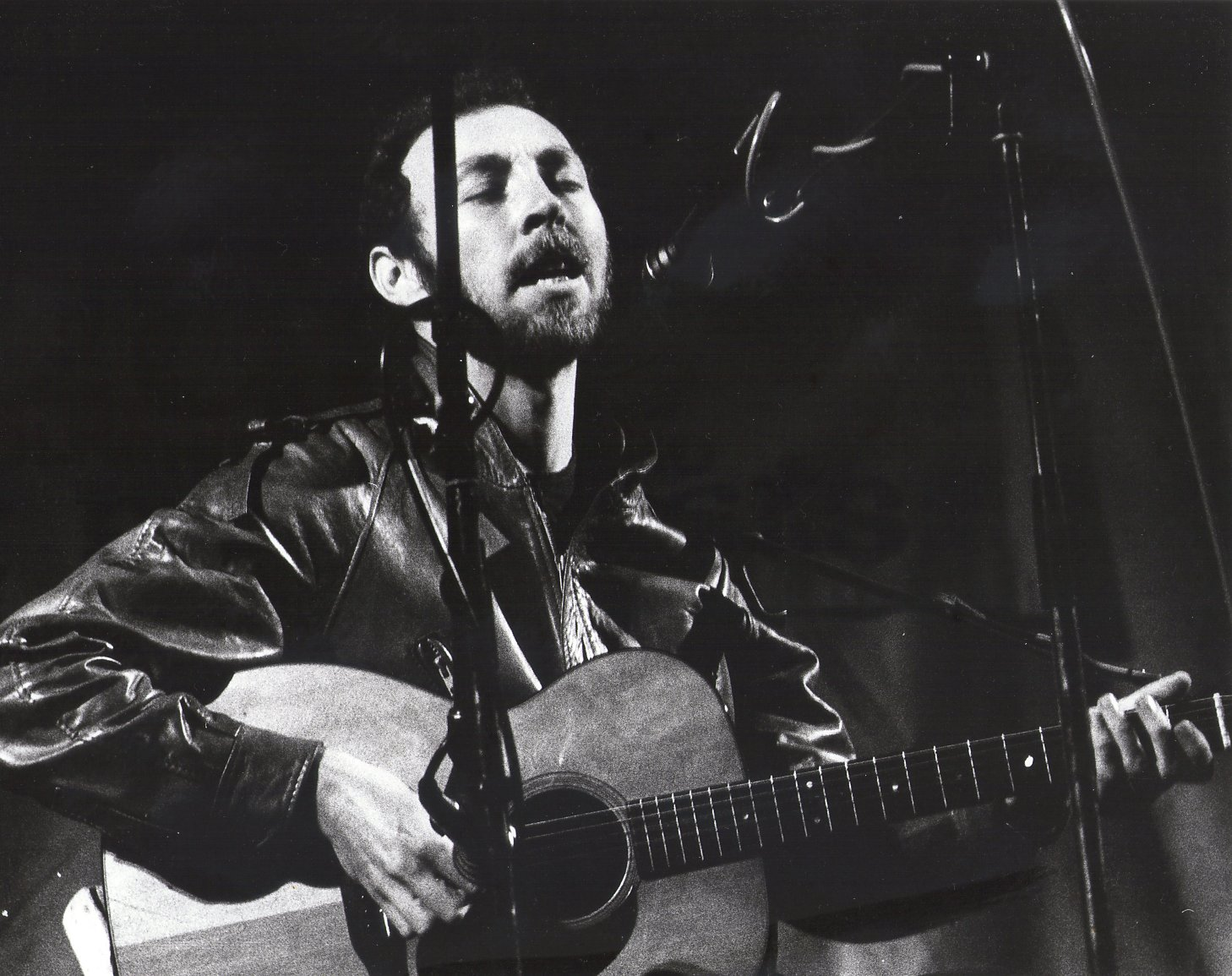 Richard Thompson (UK folk artist) on stage at the Leeds Folk Festival, UK, 1982 (photograph by Tony Rees)